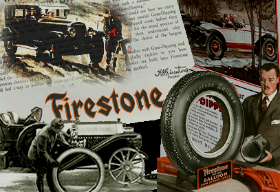 This is a screen shot taken from a promotional video used by the company to show its history. This image was originally used for advertising the product in 1903. Fair Use - Promotional